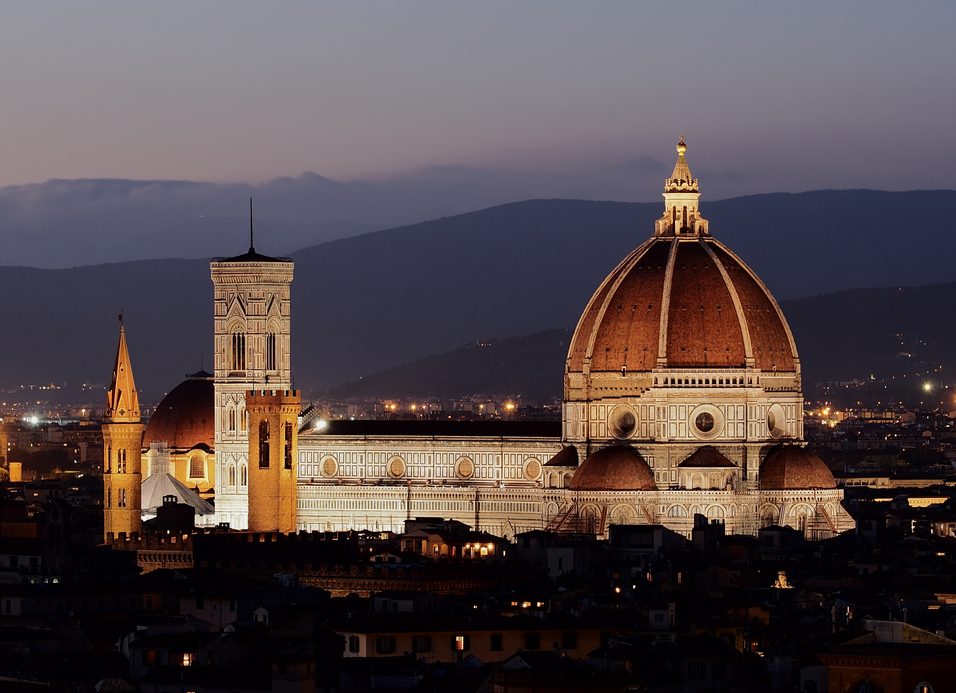 Florence Duomo as seen from Michelangelo hill. Tuscany, Italy.